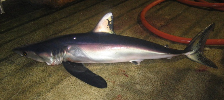 Longfin mako (Isurus paucus)